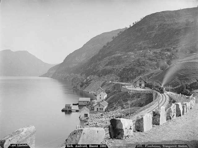 Trengereid railway station on Vossebanen, Arna, Norway ca 1880-90.